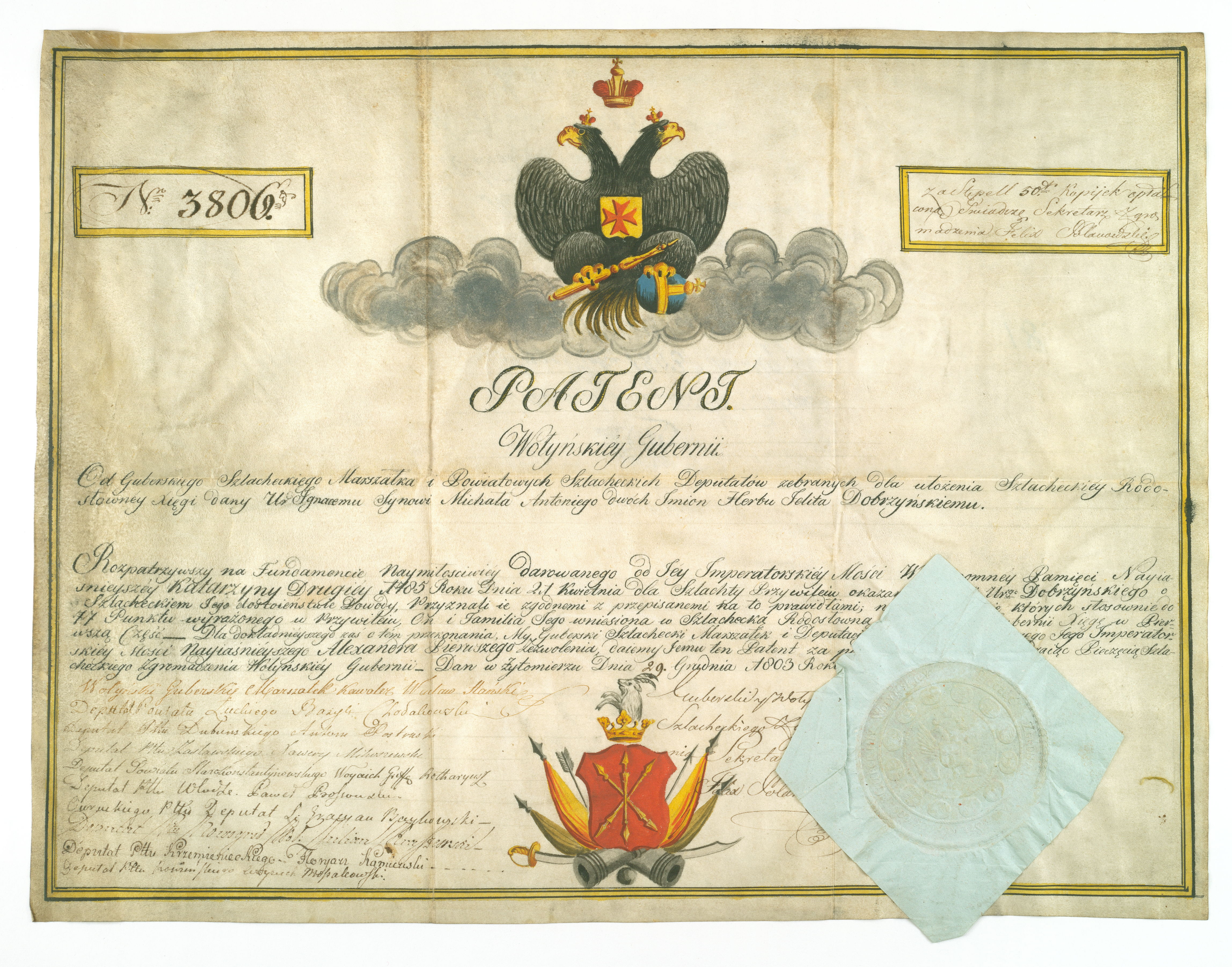 Nobility patent (letters patent) from the marshal and nobles of Volyn province issued to Ignatius Dobrzyński